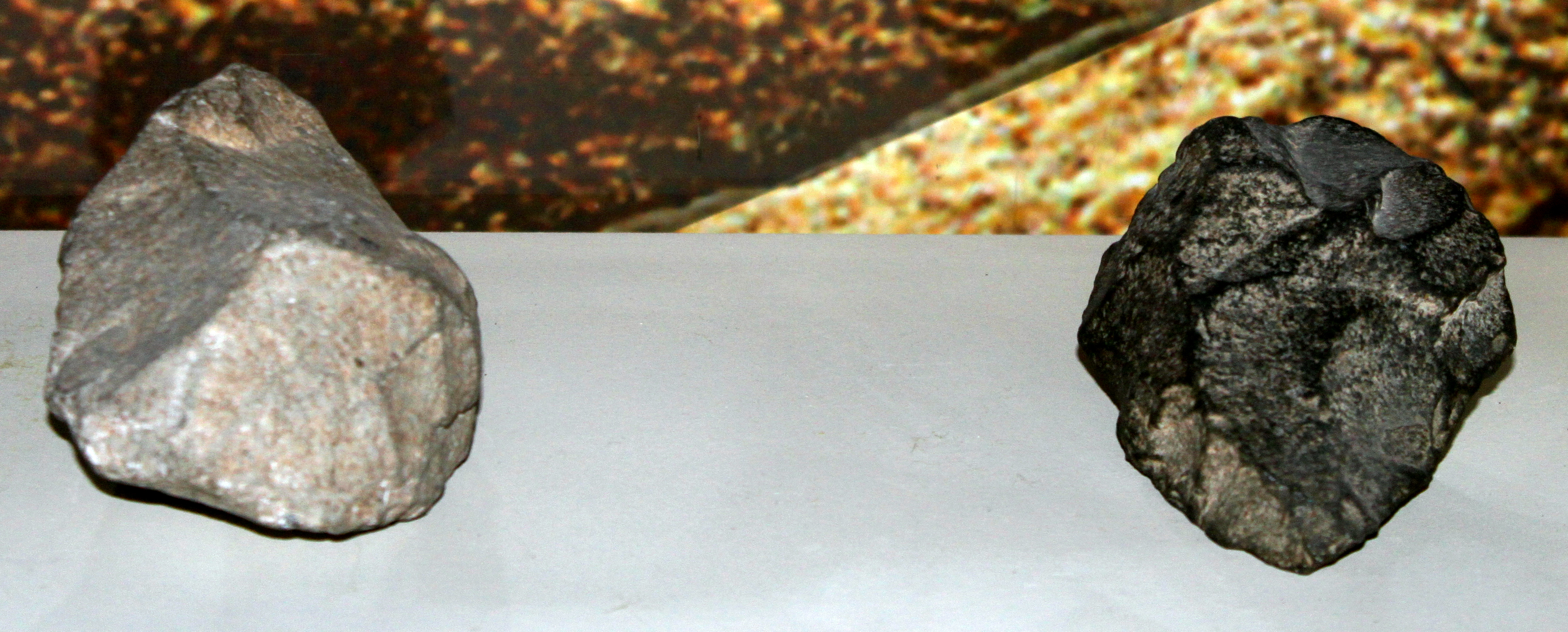 Çaydaşı və Çaxmaqdaşından əmək aləti, VI-IV təbəqələr, 700.000-200.000 il əvvəl